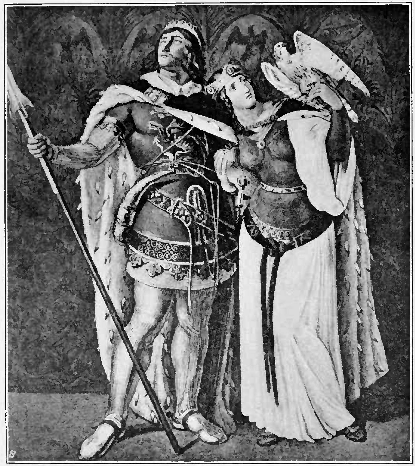 Captioned as "Siegfried and Kriemhild".